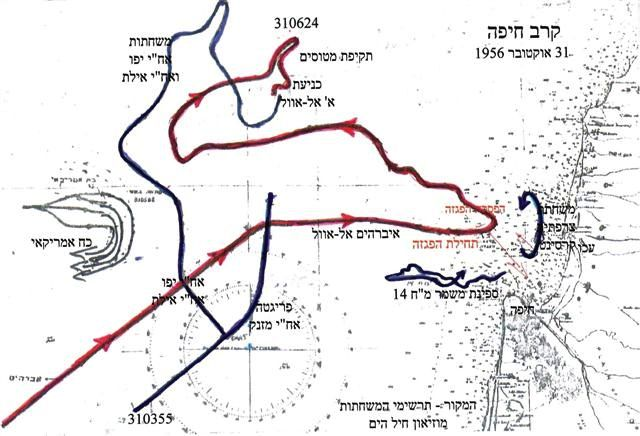 Drawing of ships path during Haifa battle of 31/10/1956. Pathes of the ships tha took part in the battle.